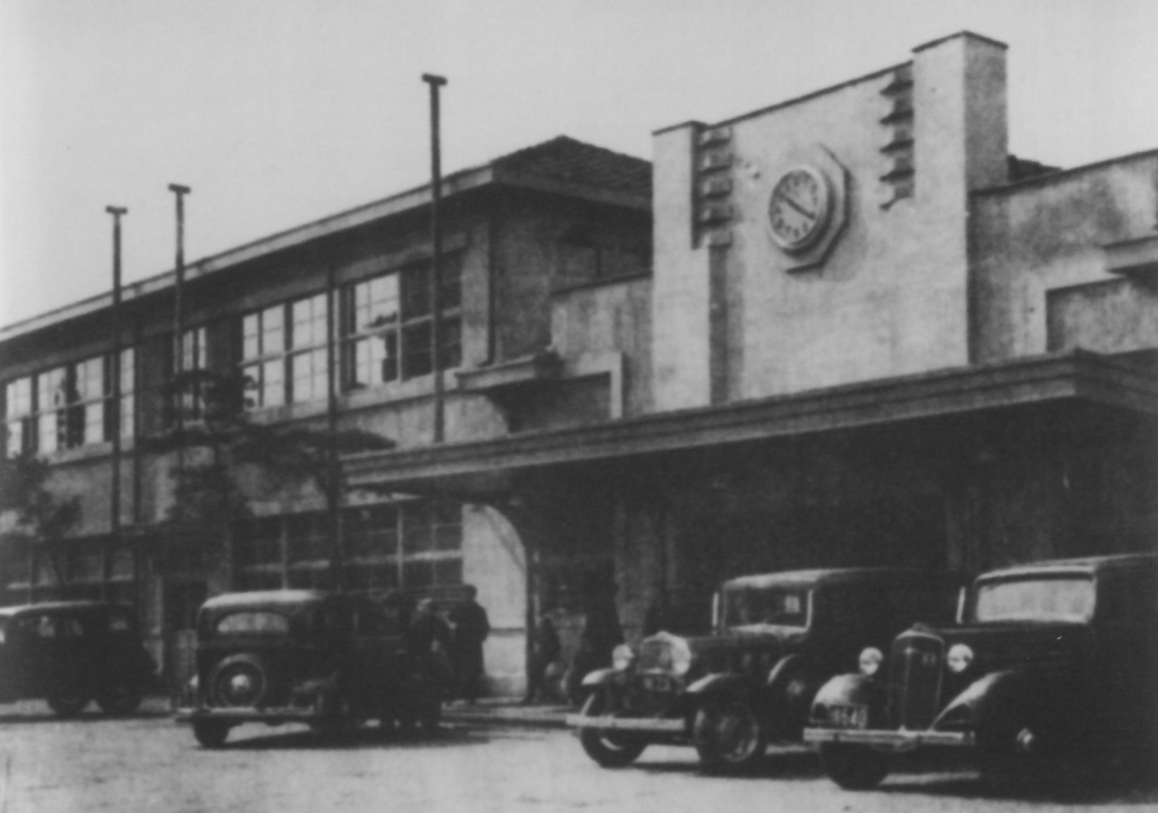 Omiya Station in Saitama Prefecture